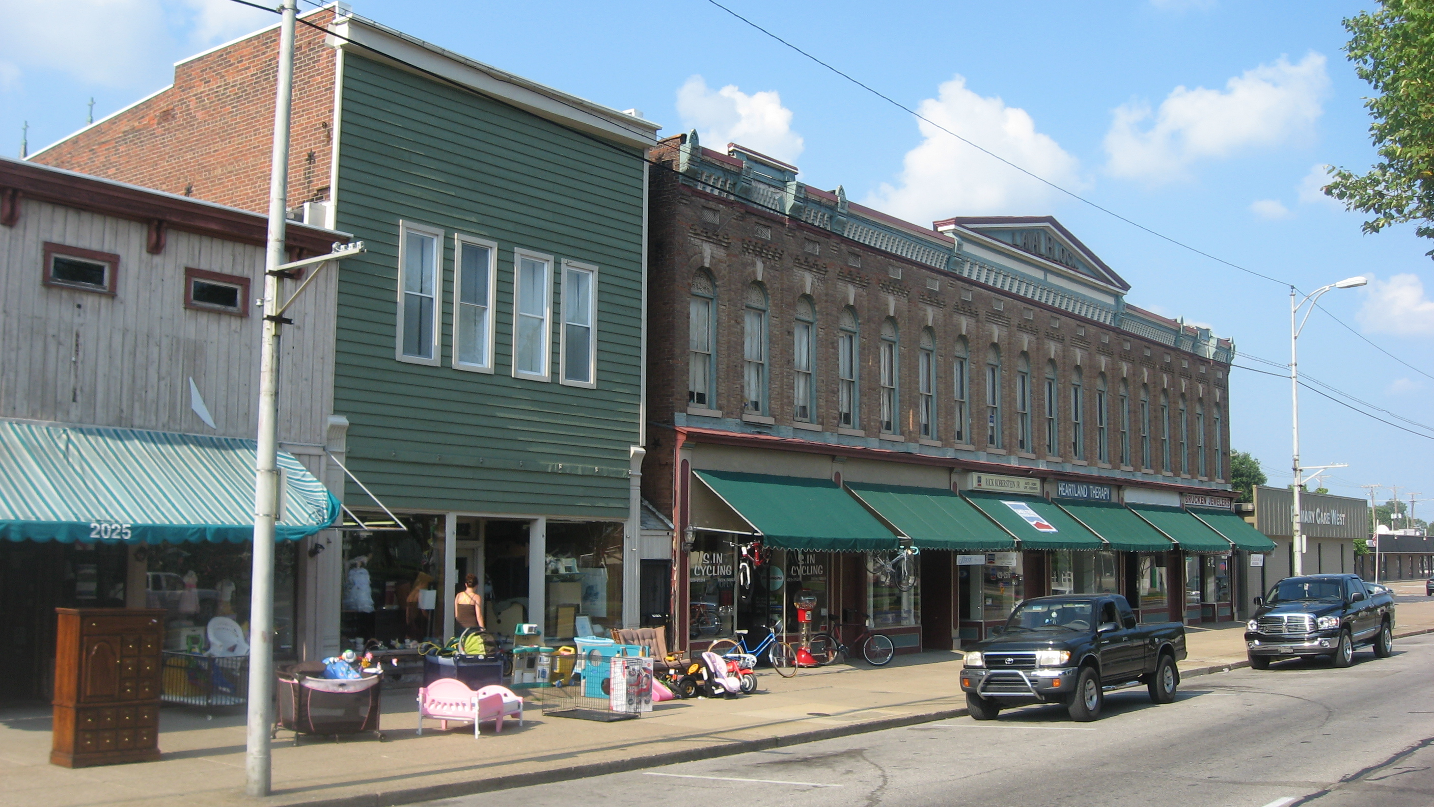 Buildings on the northern side of the 2000 block of W. Franklin Street in Evansville, Indiana, United States. This block is part of the Independence Historic District, a historic district that is listed on the National Register of Historic Places.